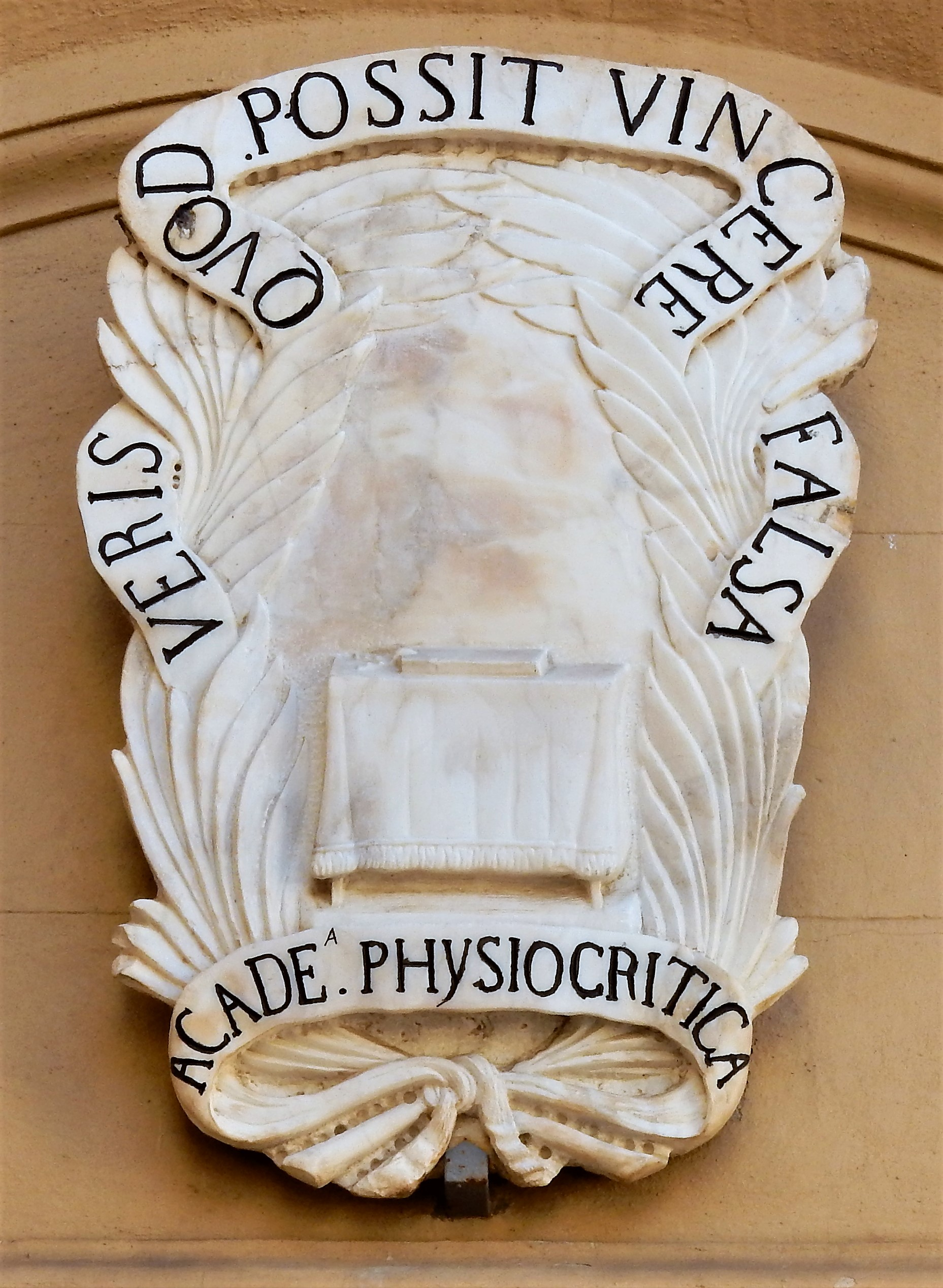 Crest of Accademia dei Fisiocritici of Siena. In the scroll a verse of "De Rerum Natura" by Lucretius: "veris quod possit vincere falsa" (libro IV, v. 481). Siena, Italy